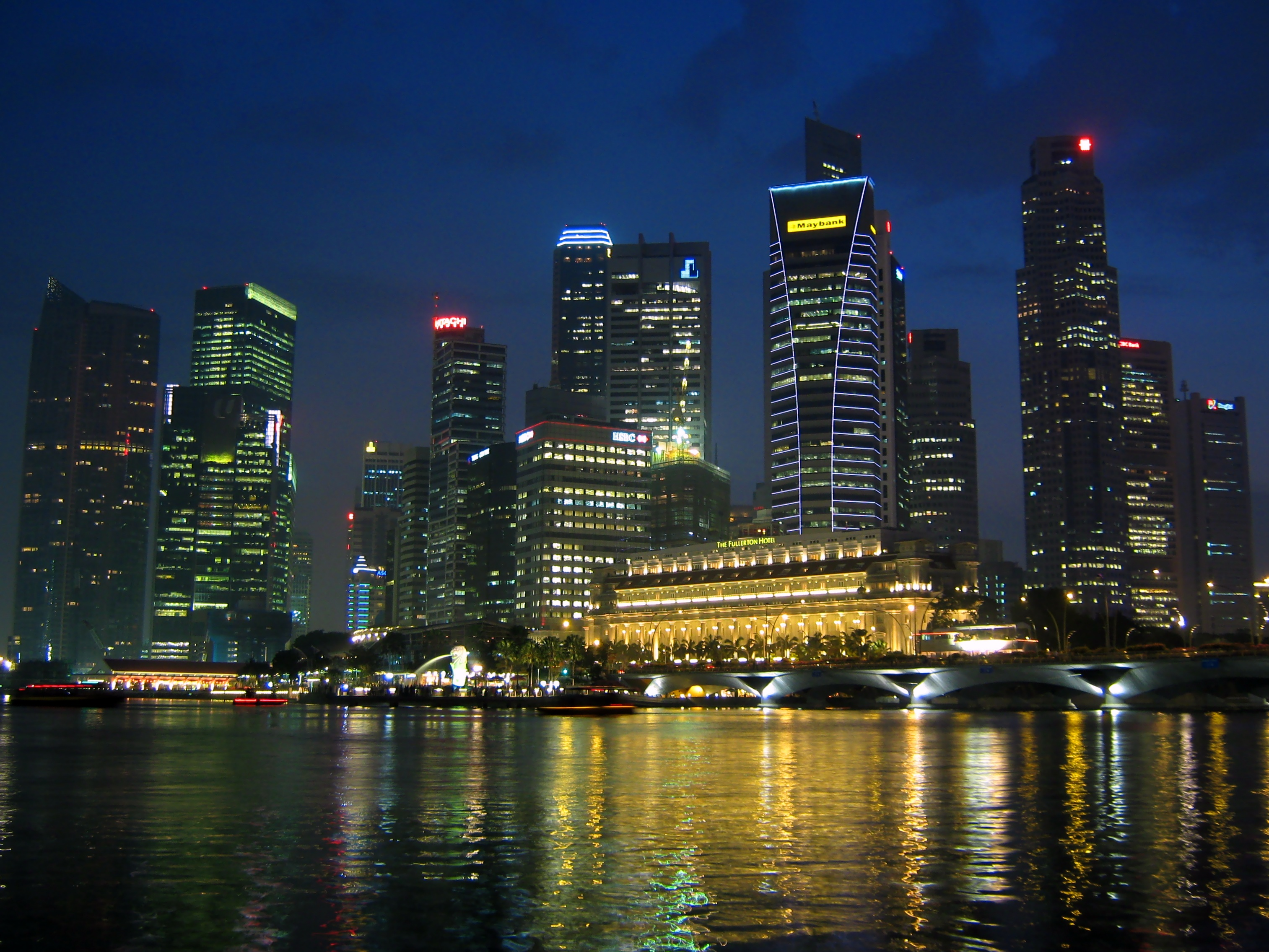 In Apr/May 2009, I took 15 days to walk all the way from Tokyo to Kyoto, roughly following the 546km long, ancient highway, the Nakasendo, alone. This picture is one of the test shots I took with a camera I bought just for the long solo walk. Read about my preparations and my time in Japan at .